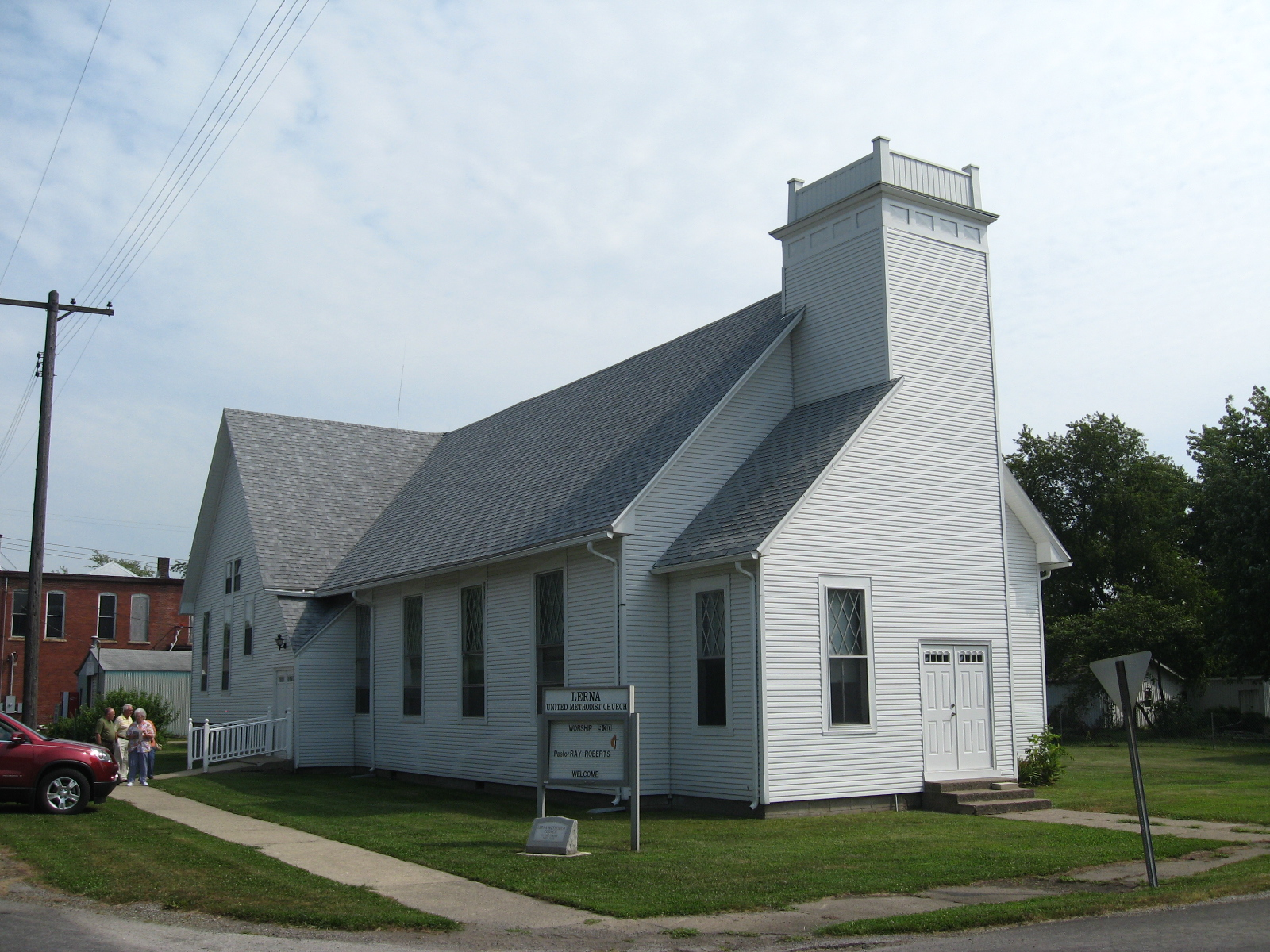 Lerna United Methodist Church, August 2009